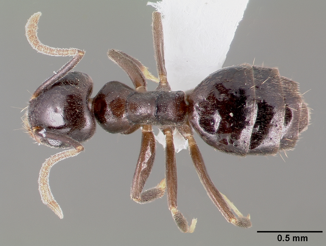 Dorsal view of ant Technomyrmex difficilis specimen casent0003175.